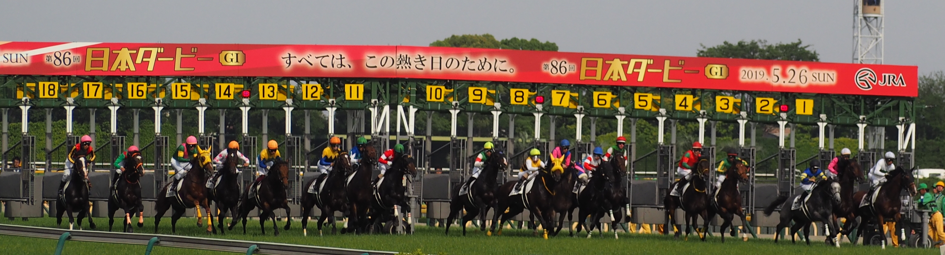 Gate Open / 86th Tokyo Yushun Japanese Derby 2019 日本ダービー